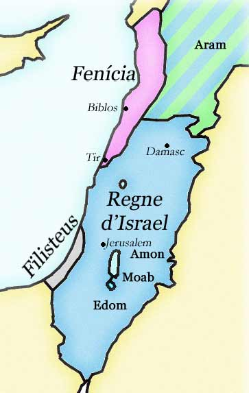 Kingdom of Israel under king David